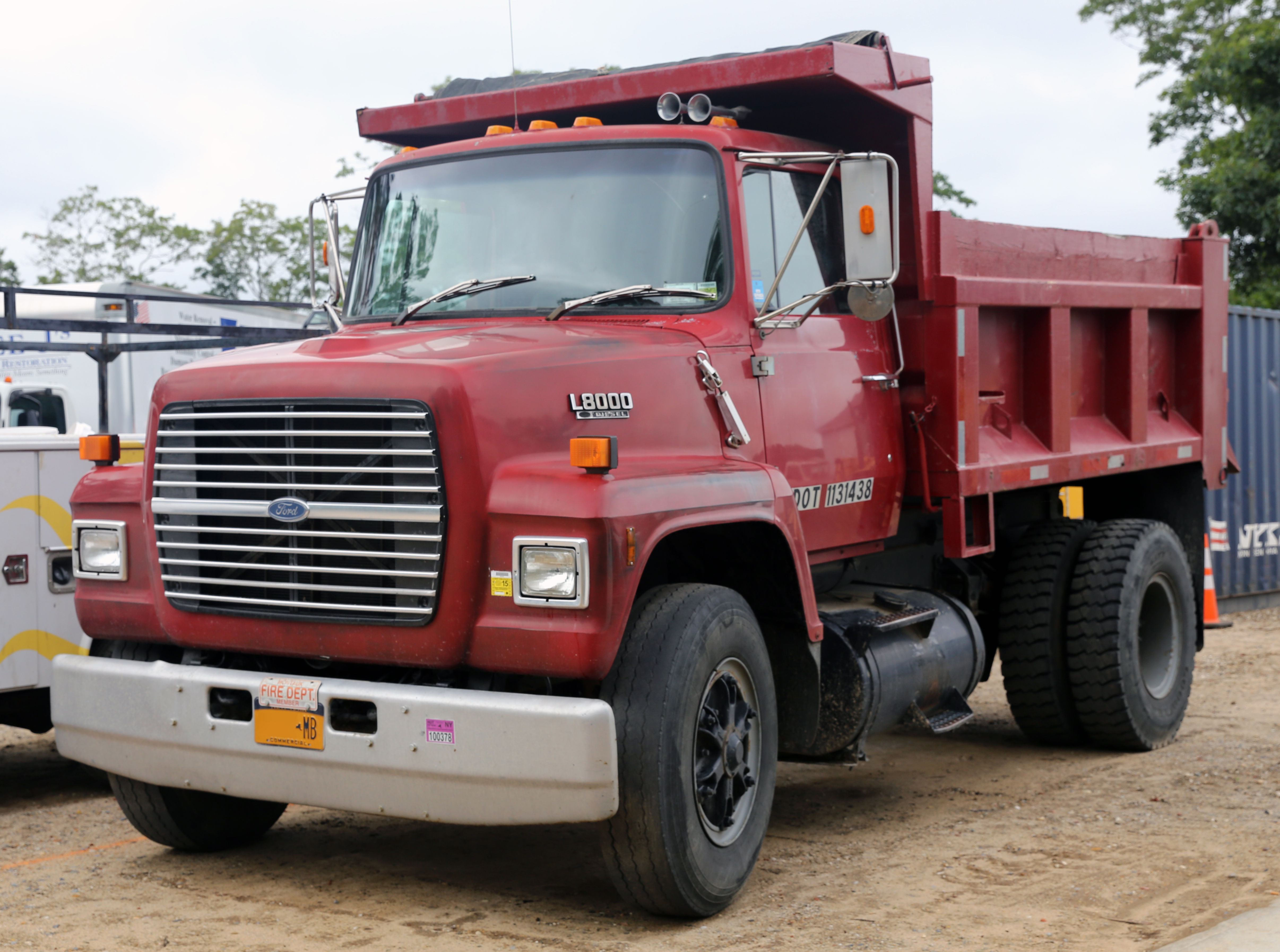 A 1989 Ford LN8000 Diesel dump truck. This short wheelbase little thing has a 7.8 litre inline-six turbodiesel.